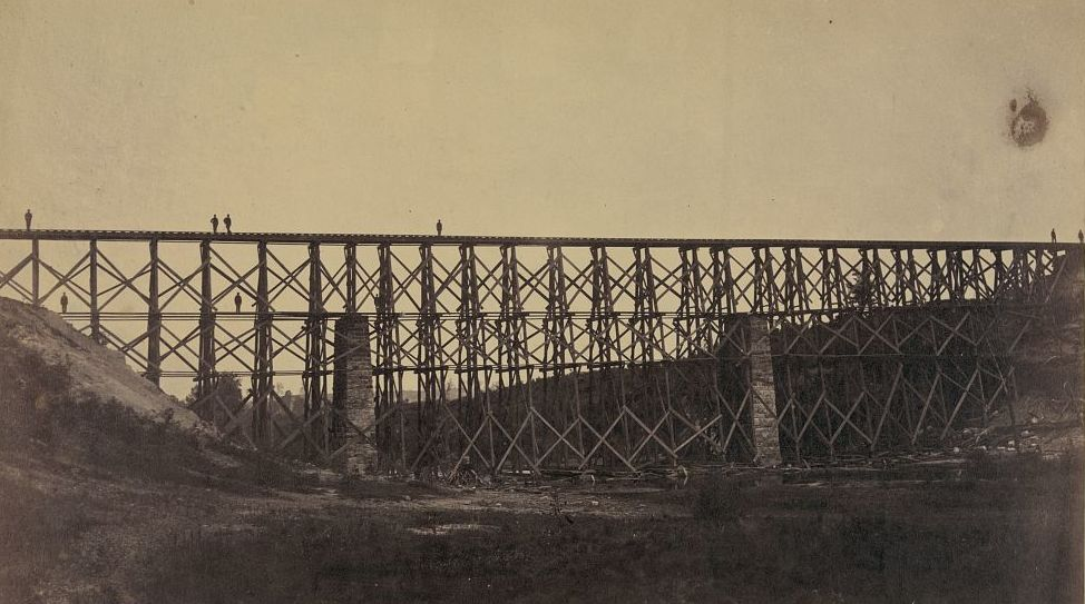 Military railroad bridge over Potomac Creek. Built by U.S.M.R.R. Construction Corps in 40 hours (May,1864)